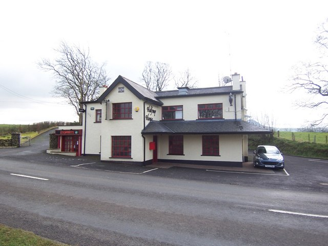 The Half way House pub, Aughafatten